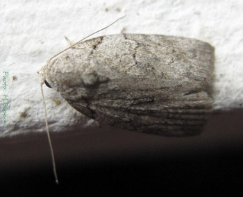 Pardasena virgulana (Nolidae - Sarrothripinae) (Mabille, 1880) approx.5x10mm